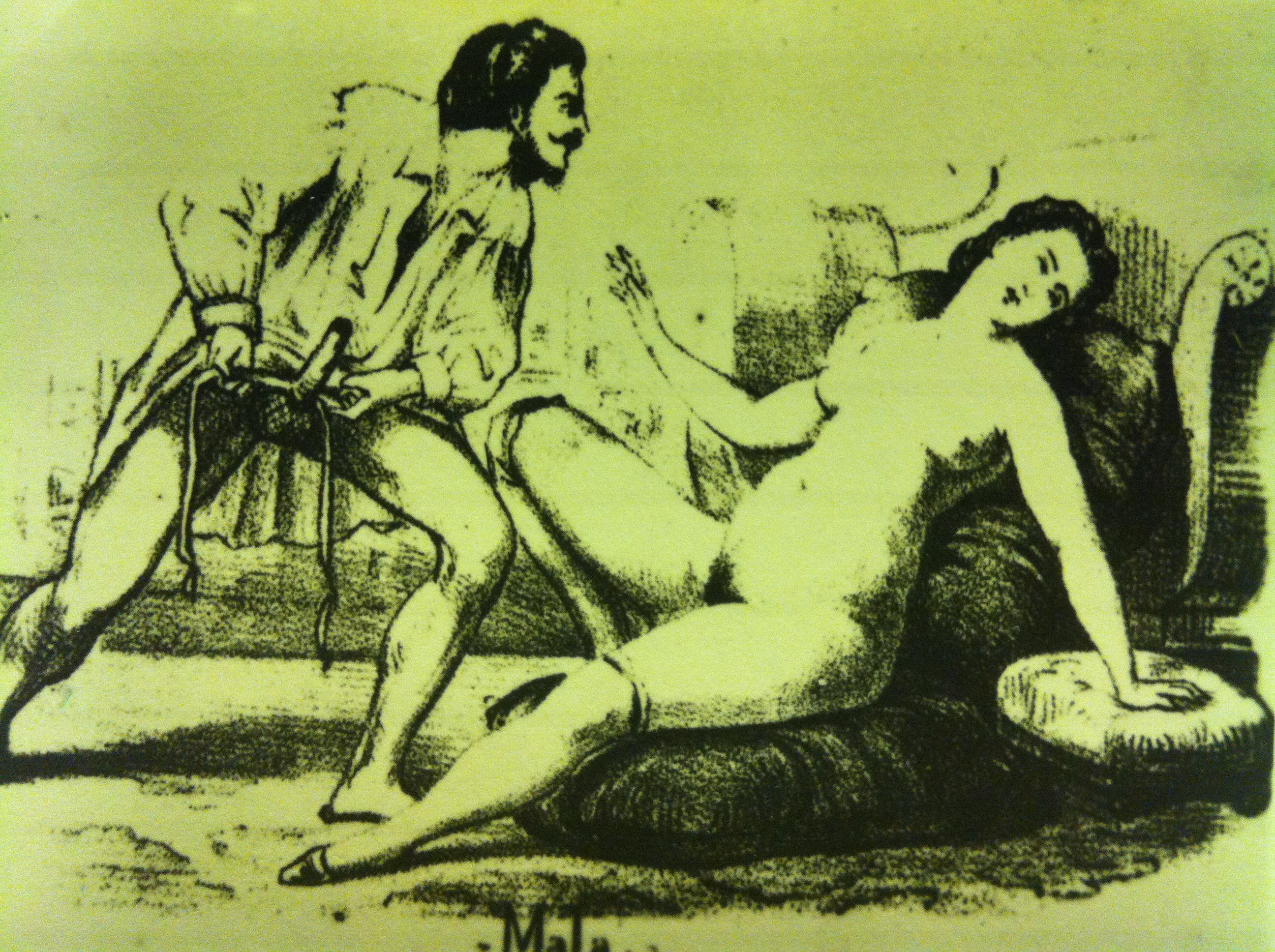 Pictures of an exhibit about The Paral·lel avenue in Barcelona that took place in CCCB cultural center between october 2012 and feb 2013. El Paral·lel emerges from the project to extend the city designed by Ildefons Cerdà. From its birth, a series of contradictory urban planning regulations facilitated the appearance of ephemeral buildings and the conversion of this street into a dense area of leisure and entertainment. The result was a leisure district for the masses, perfectly comparable to those existing in other major European urban agglomerations at that time, but that immediately became a genuine cultural expression of the social and political conflict that characterised the Barcelona of the early 20th century. El Paral·lel generated shows with perfectly differentiated contents and formats, made up by the audience and the artists. This exhibition will explain, therefore, why a new entertainment area emerged in the city, leading the weight of the theatrical axis to move from the Plaça Catalunya-Passeig de Gràcia area to the Nou de la Rambla-Paral·lel area.